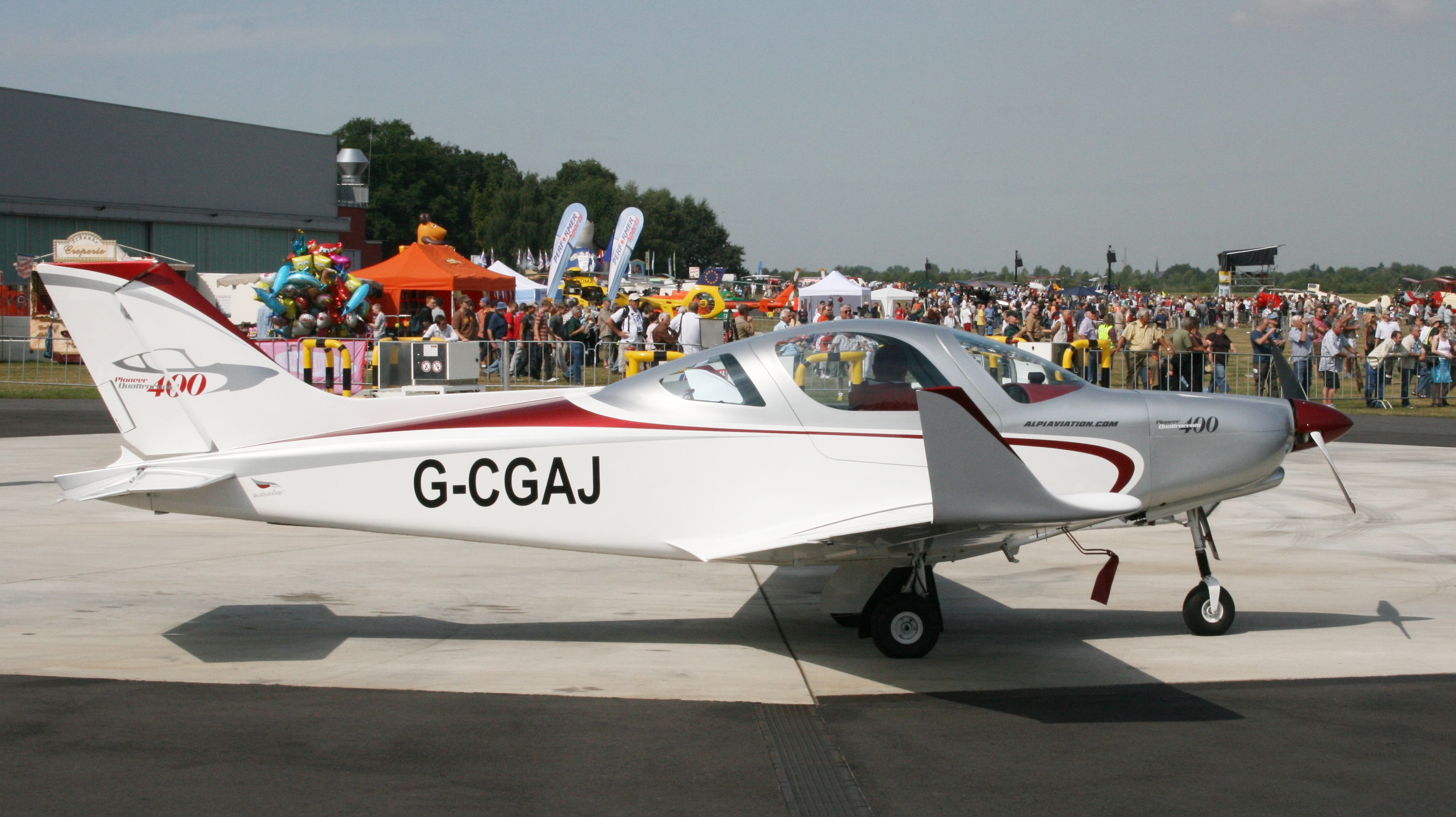 Aircraft Alpi Aviation Pioneer 400 Quattrocento at airfield Bonn/Hangelar, germany; open day/airport party and airshow